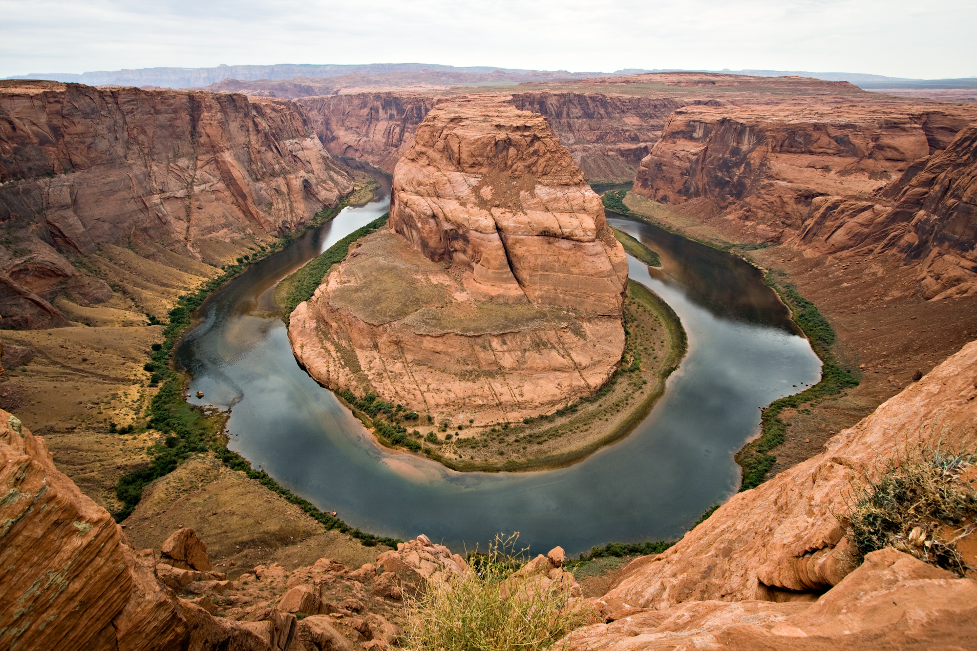 Horseshoe Bend, Arizona. Horseshoe Bend is a horseshoe-shaped meander of the Colorado River located near the town of Page, Arizona.